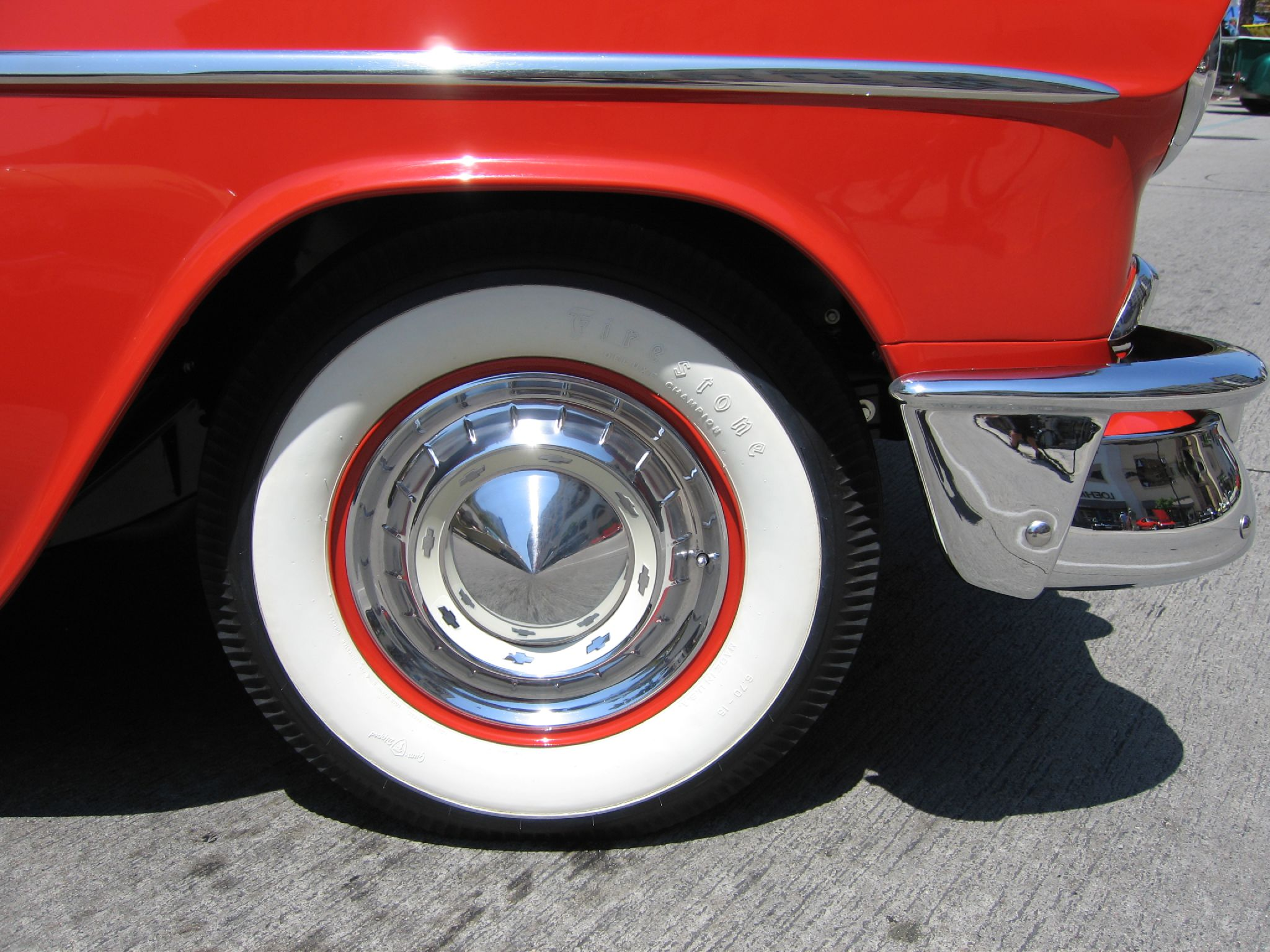 Whitewall tire